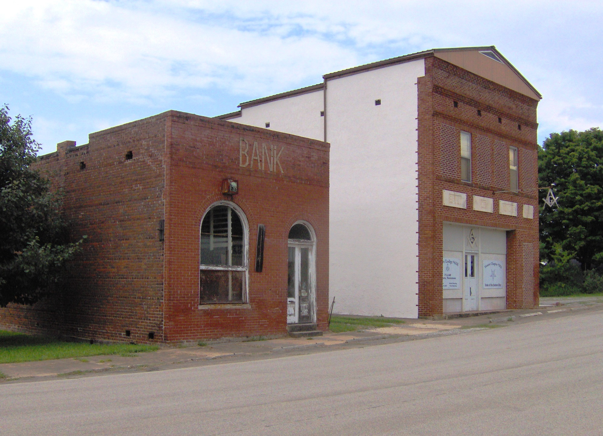 Old bank building (left) and lodge building for the Order of the Eastern Star's Vonore Chapter (right) in Vonore, Tennessee, USA.